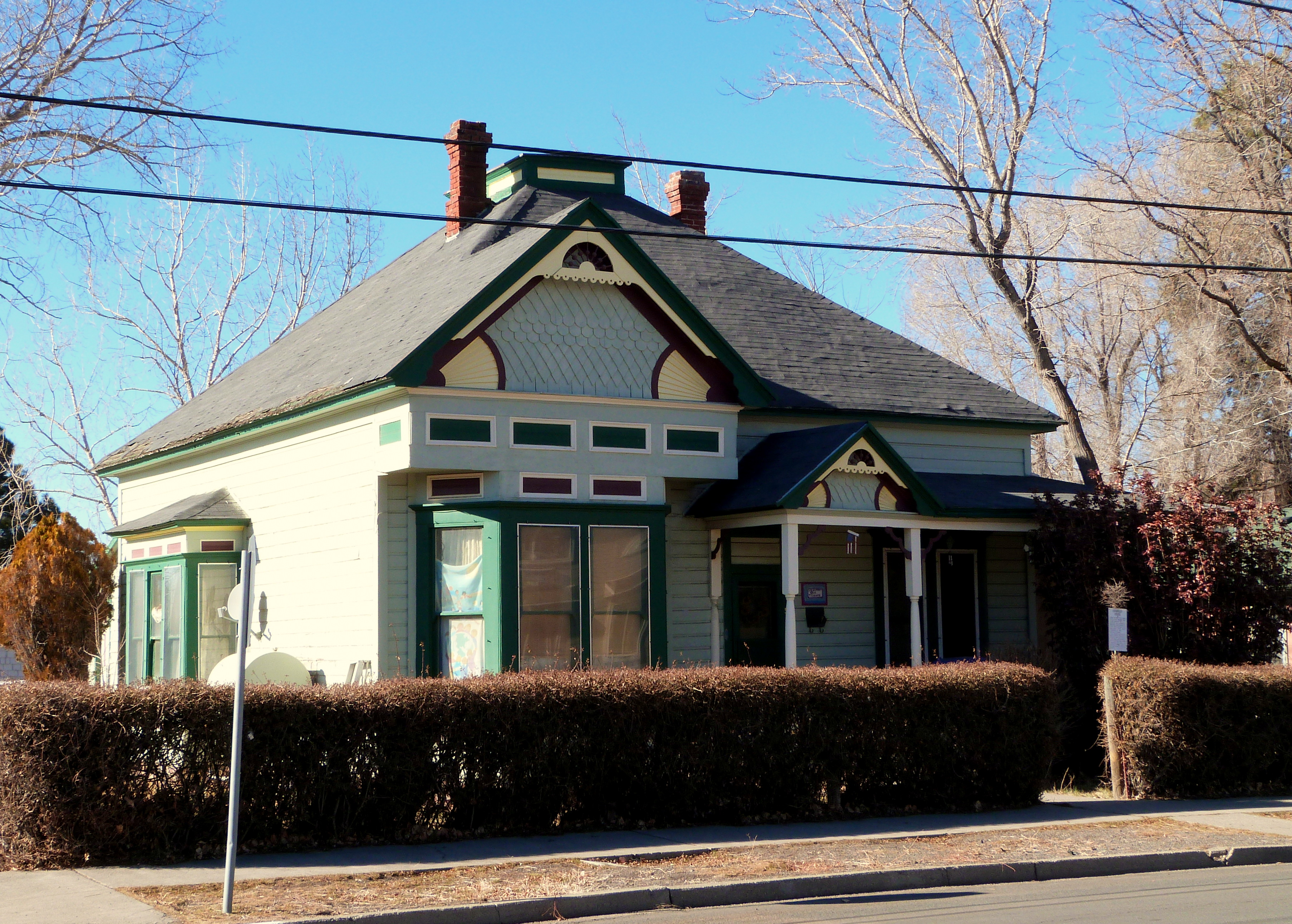 The historic John N. and Cornelia Watson House (built 1905), located at 5 North H Street in Lakeview, Oregon, United States, is listed on the US National Register of Historic Places.